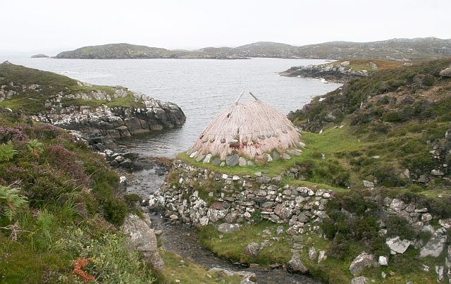 The Norse Mill at Breaclete A rebuild of the mill taking water from Loch na Muilne. There are over two hundred sites of these small corn mills on Lewis making use of local materials.